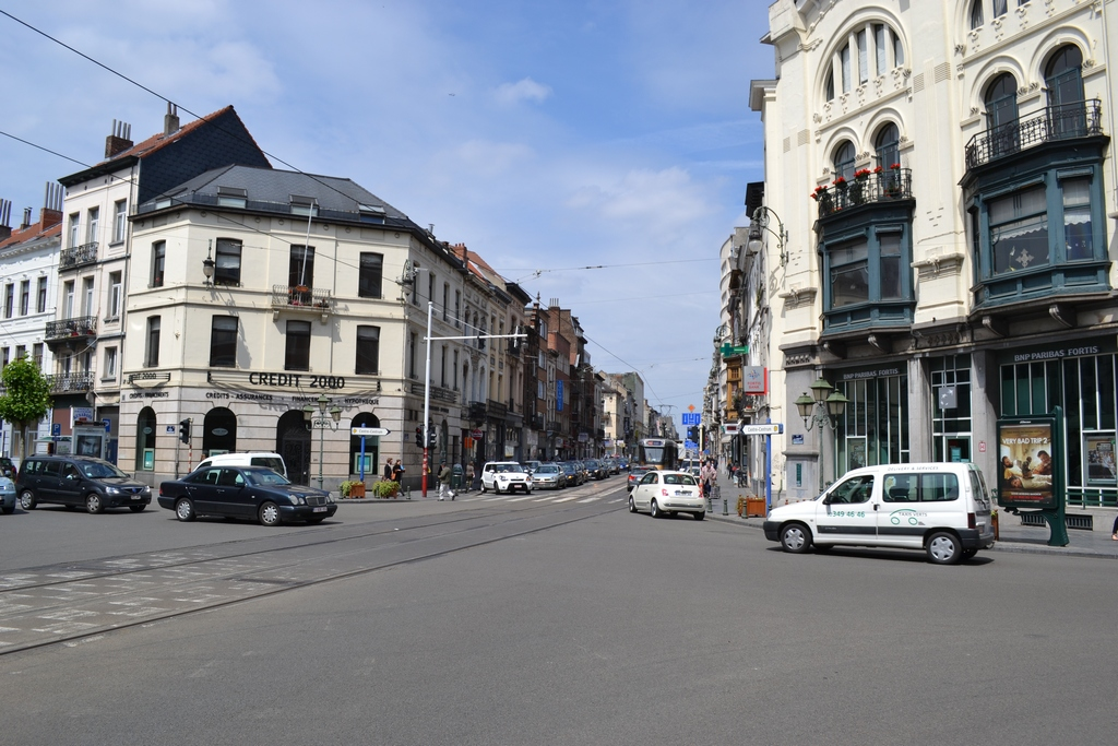 View of the Ma Campagne cross roads and the chaussée de Charleroi in Brussels.